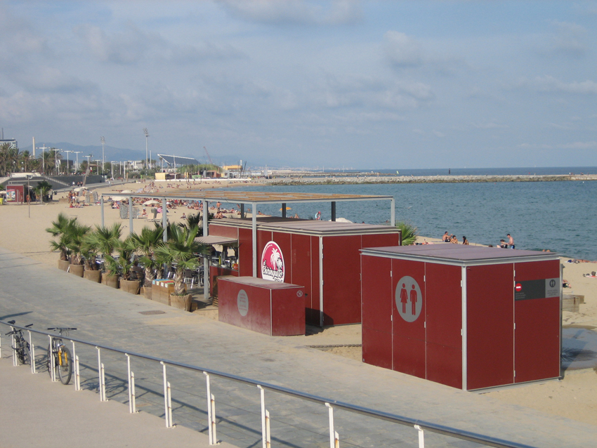 Prefabricated kiosks set habana model for different uses on the beaches of Barcelona, Spain